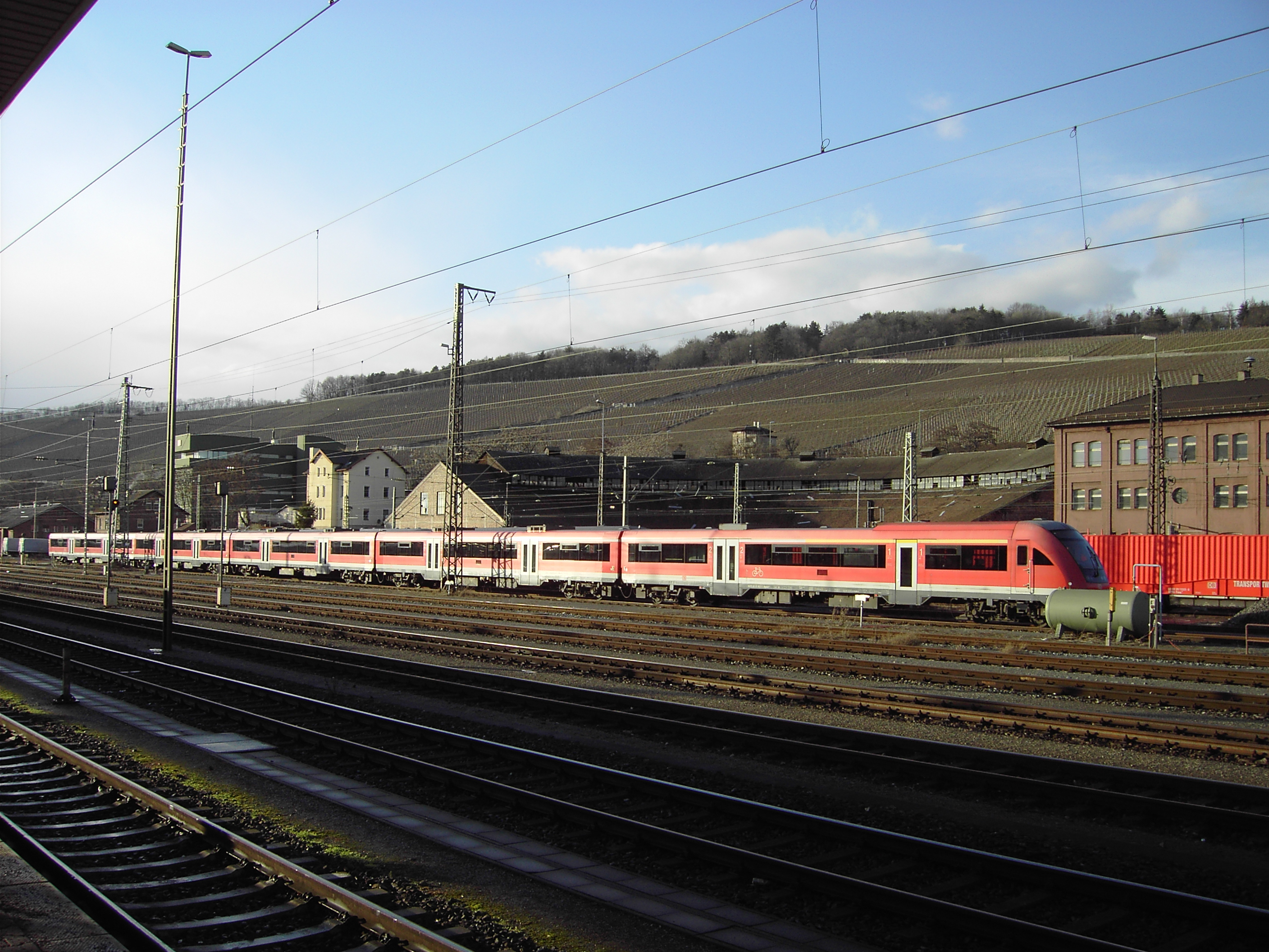 Modus rail cars of DB Regio at Würzburg main station.